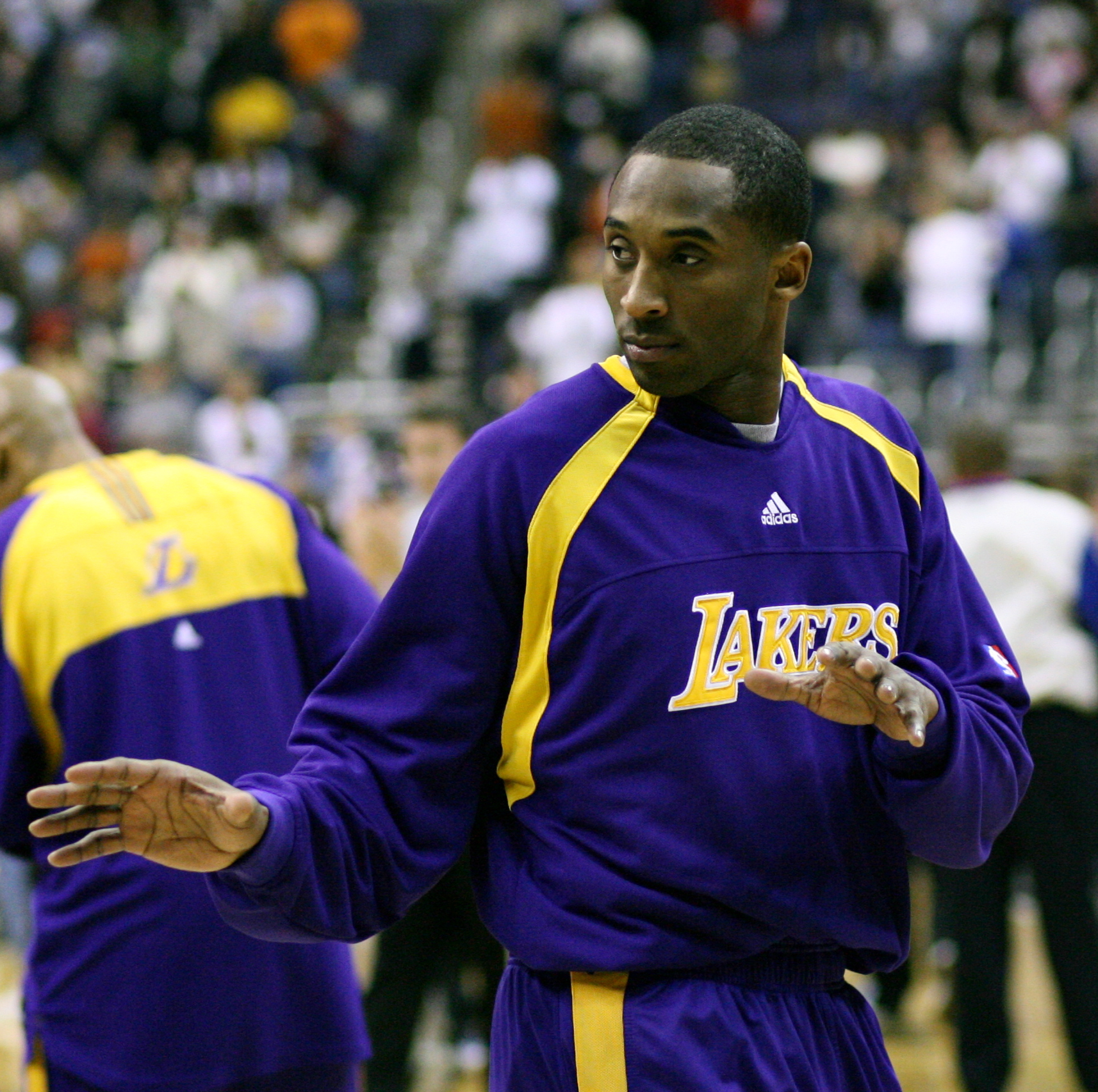 Kobe Bryant warming up for a game against the Washington Wizards in 2007